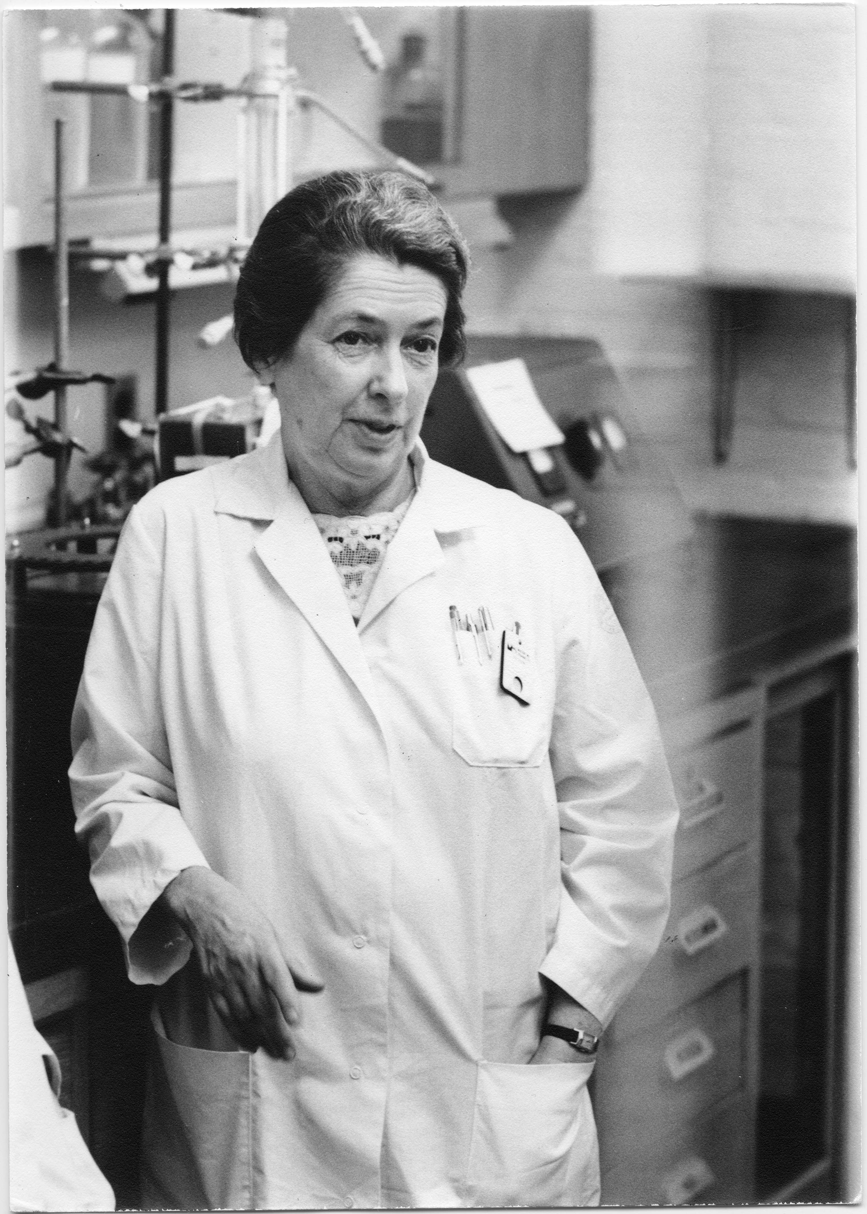 A photo of Gertrude Perlmann in her laboratory at The Rockefeller University. Provided by Margaret A. Hogan of the Rockefeller Archive Center for release to Wikimedia